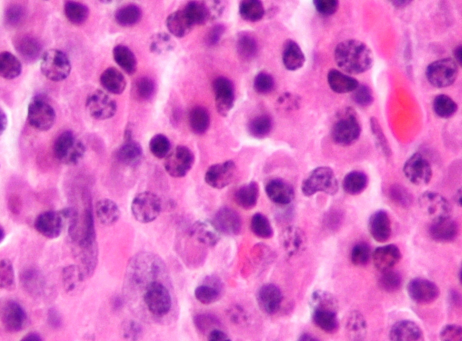 Micrograph of a plasmacytoma. H&E stain. The micrograph shows abundant (malignant) plasma cells with the occasional Mott cell, a plasma cell with intracytoplasmic Russell bodies (an eosinophilic uniformly staining membrane bound body which contains immunoglobulin). Other features of plasmacytomas (not apparent on the image) are: a prominent perinuclear hof (large Golgi bodies), and Dutcher bodies. Multiple myeloma (which is diagnosed using several clinical criteria) is, histologically, a plasmacytoma. Related images Uncropped. Cropped.